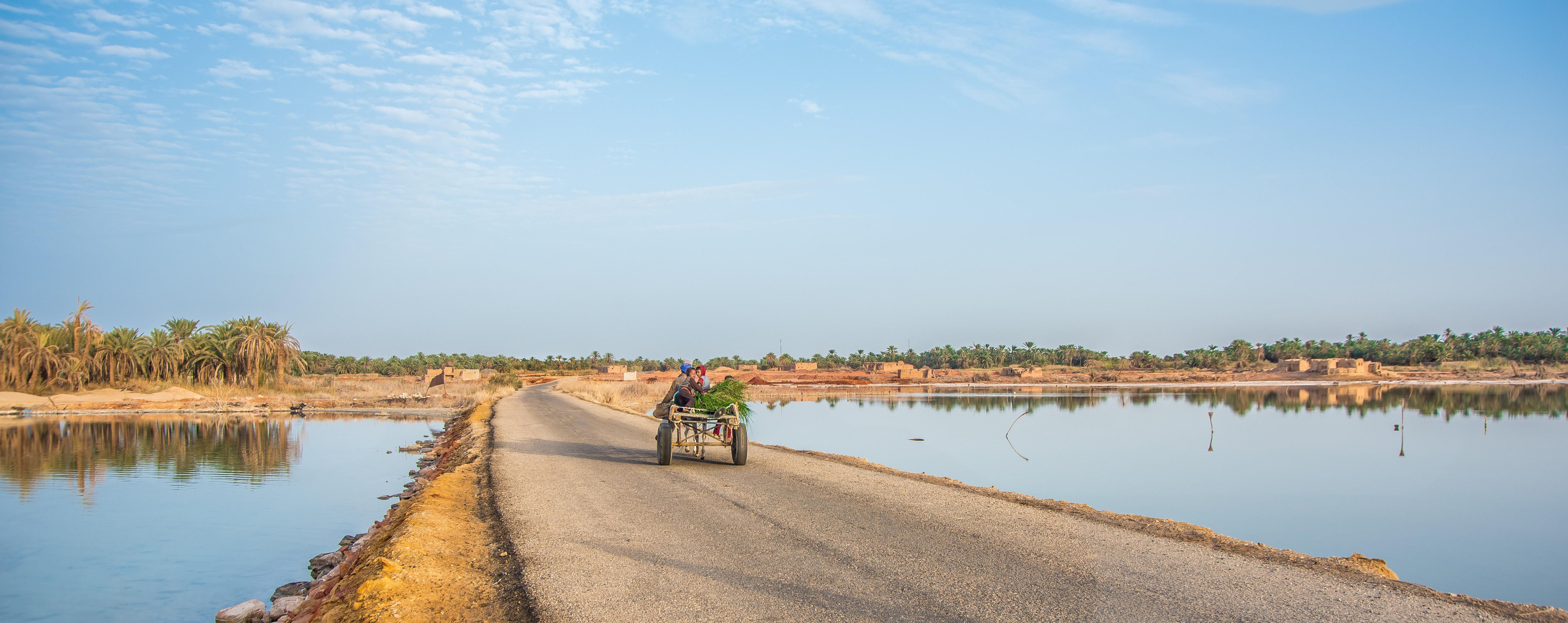 the way to siwa oasis This is an image with the theme "Africa on the Move or Transport" from: Egypt